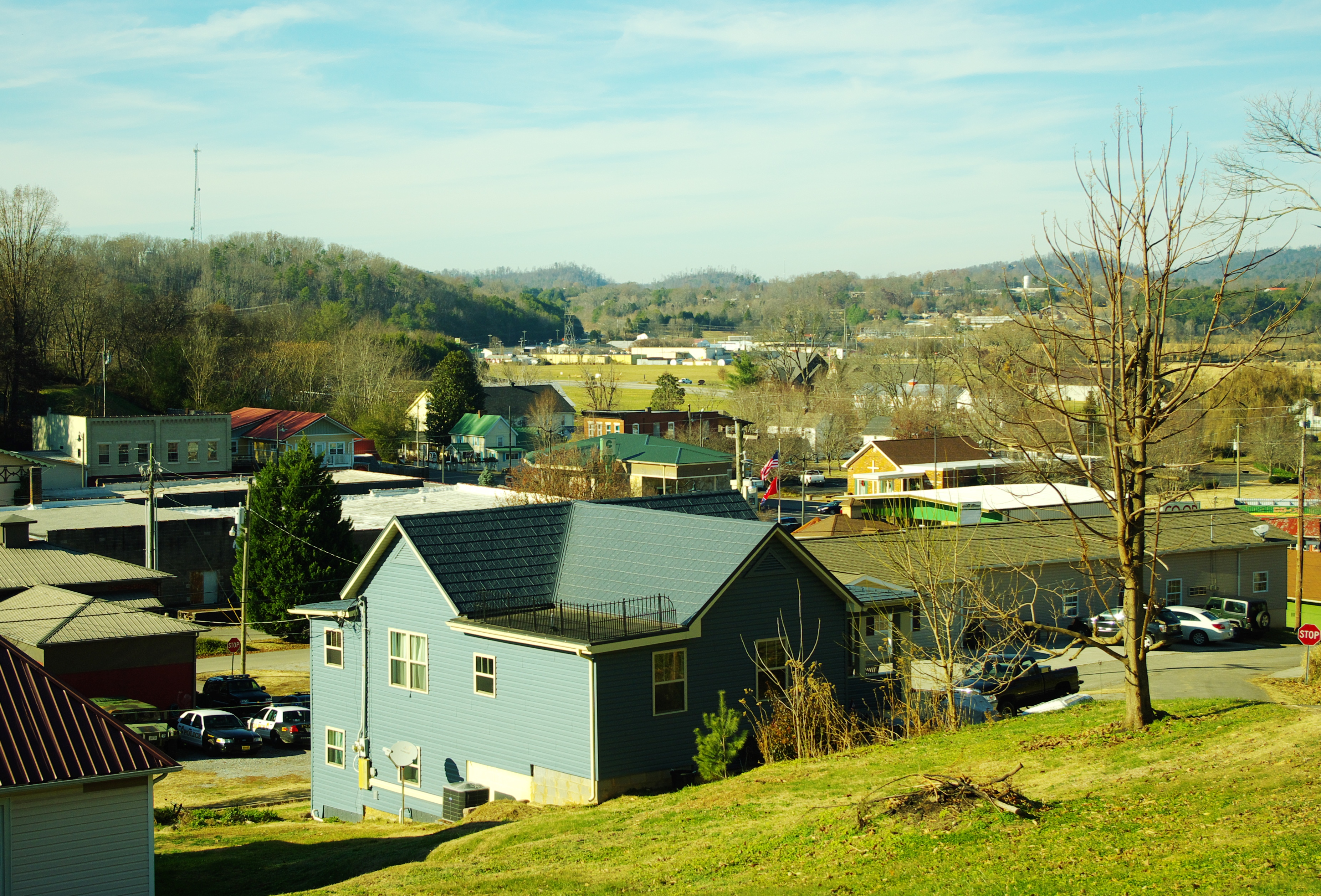 Tellico Plains, Tennessee, United States, viewed looking northwest from School Street.